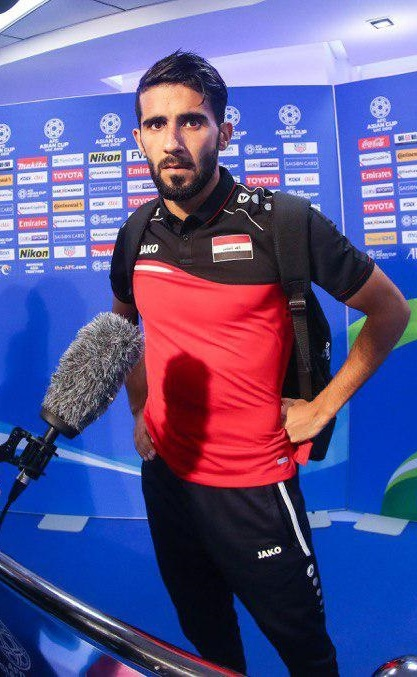 Bashar Resan in 2019 AFC Asian Cup